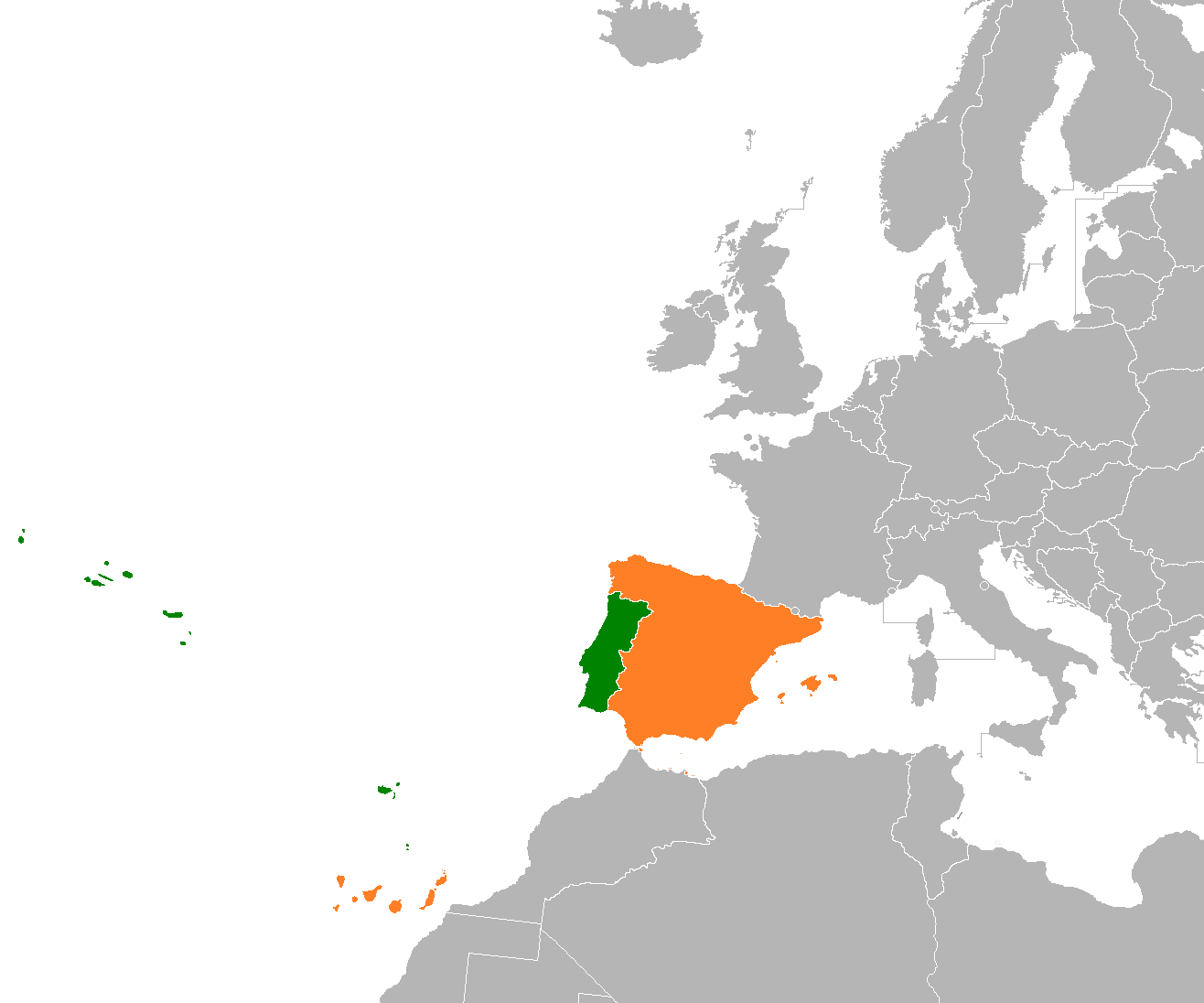 Map of Europe indicating the Portugal and Spain. For use in Portuguese-Spanish relations and similar articles.